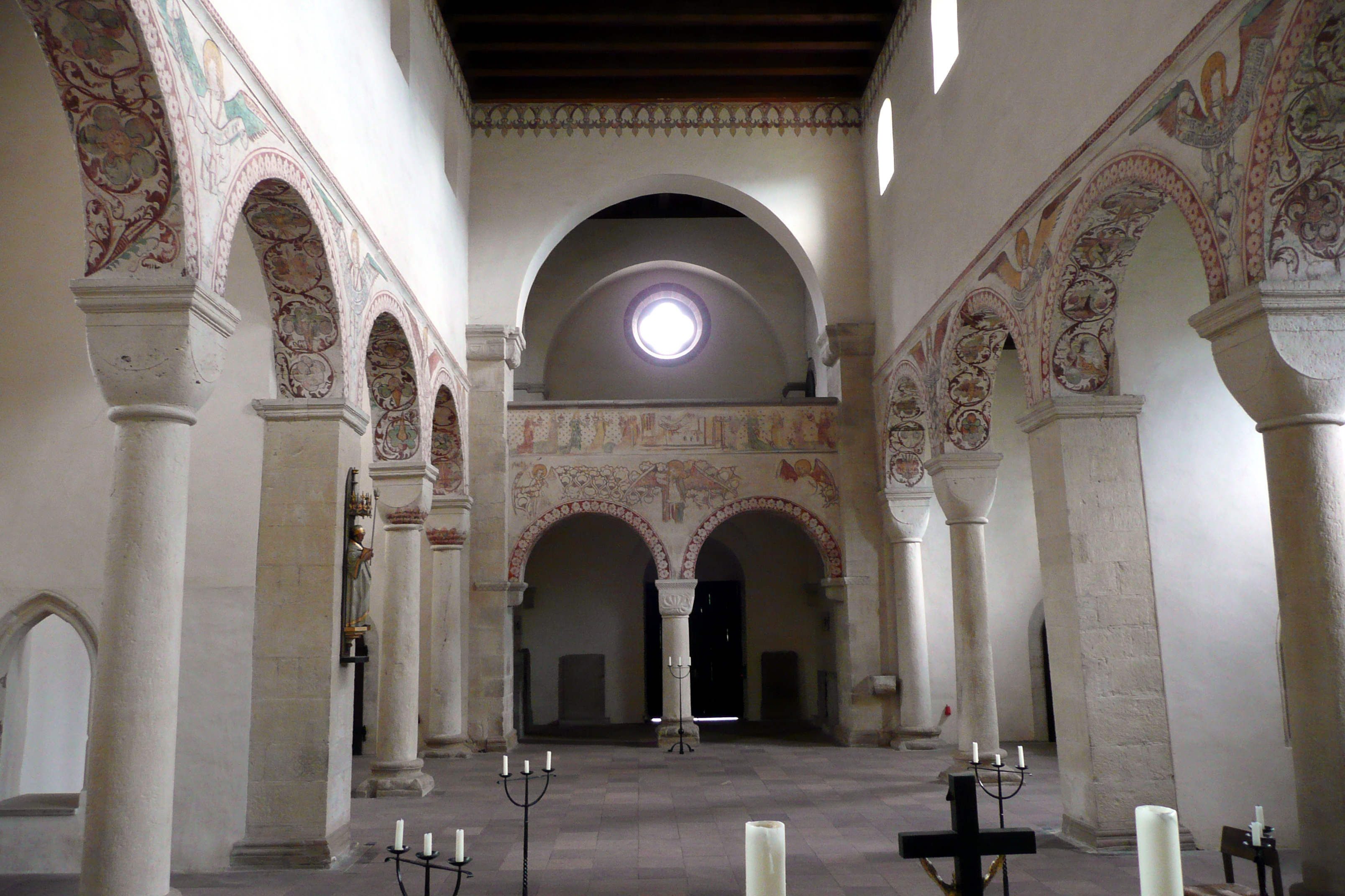 Westside church of the former abbey of Saint Benedict in Bursfelde in the Weser valley.